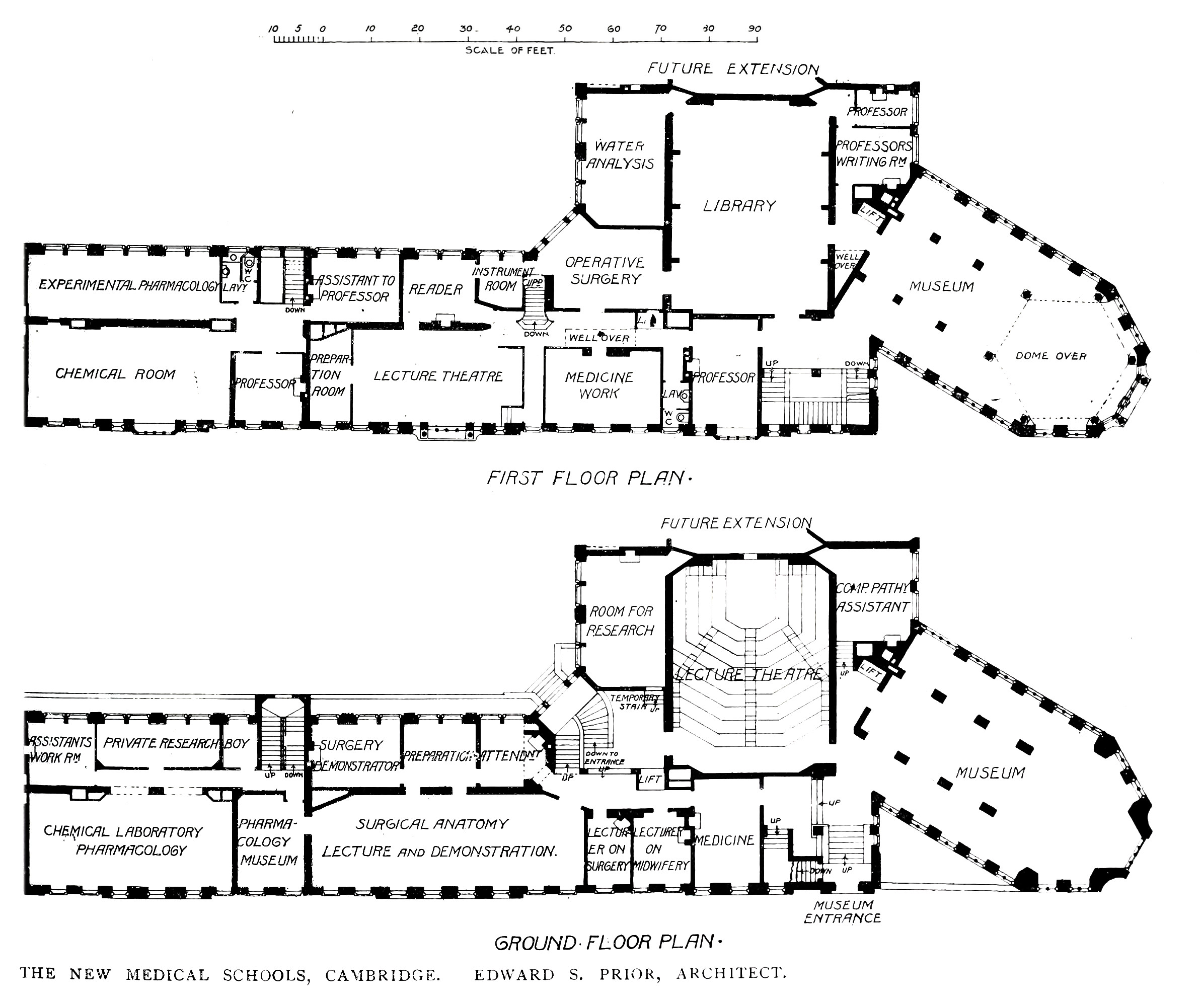 Plans